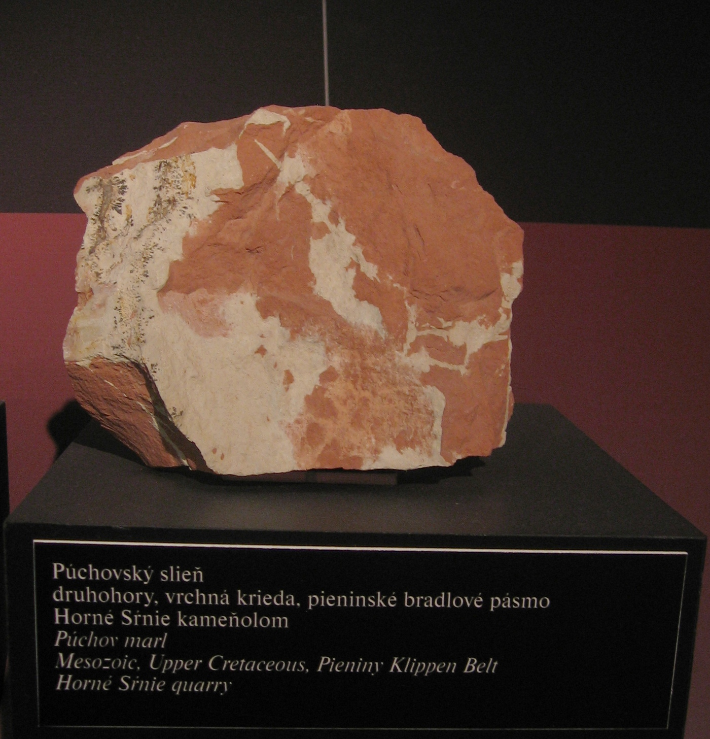 Púchov Marl, analogous facies as Alpine "couches rouges", Upper Cretaceous. Sample from Horné Srnie quarry, Slovakia, Pieniny Klippen Belt (Western Carpathians). Photo taken in Slovak National museum in Bratislava.